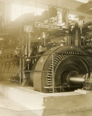 Snapshot of a McIntosh & Seymour engine [possibly in use at a U.S. Navy facility] inside an unidentified building [1930s] [photograph from Robert J. Pleasants’ USS Lexington photo]. From Robert J. Pleasants Papers, WWII 73, WWII Papers, Military Collection, State Archives of North Carolina, Raleigh, N.C.